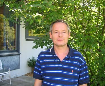 Photo of James McKernan